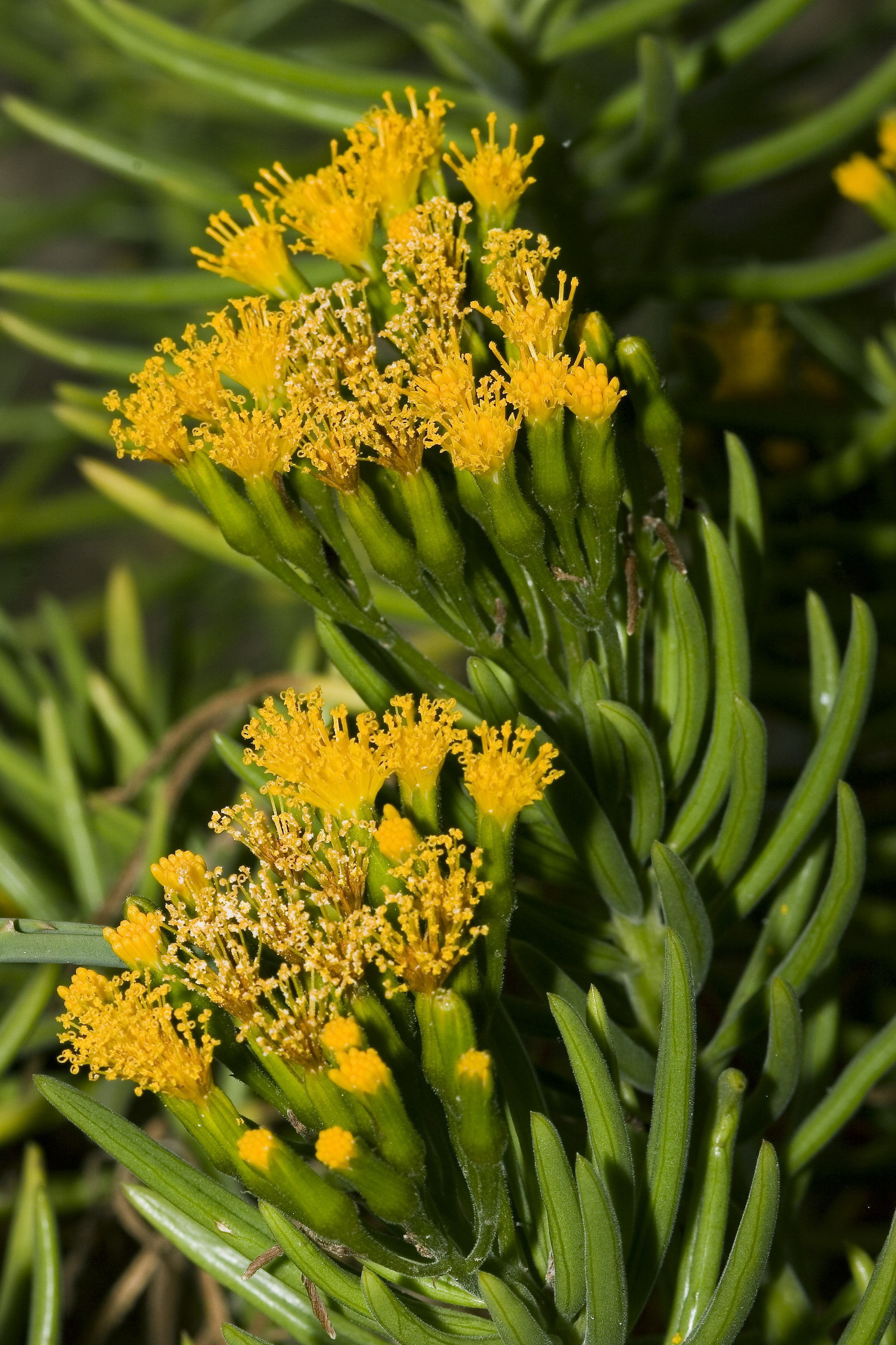 Senecio barbertonicus Location: Botanical Garden, Dresden (Saxony, Germany) 5/180L f16 Film / Speed: ISO 100 Comment: Canon Flash 580EX